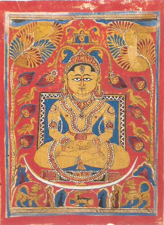 Mahavira's Nirvana or Moksa. Note the crescent shaped Siddhashila (a place where all siddhas reside after Nirvana). Folio 53r from Kalpasutra series, loose leaf manuscript, Patan, Gujarat. c. 1472.